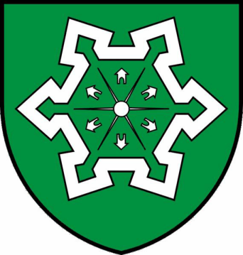 Coat of Arms of Slovakian town Nové Zámky